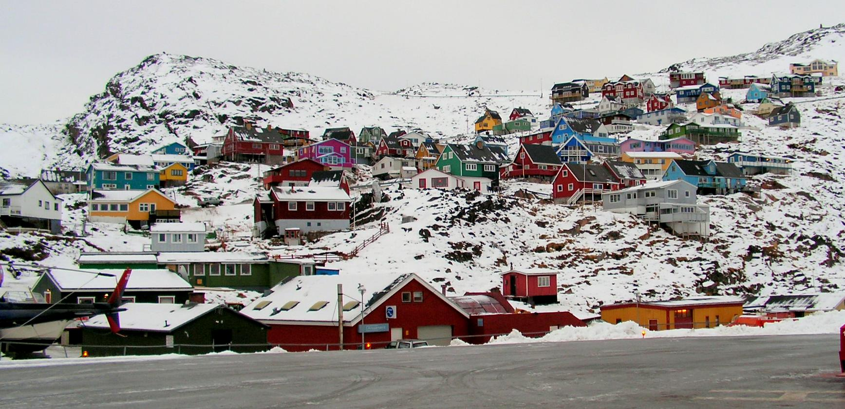 The town of Qaqortoq (Julianehåb), Greenland. Taken December 2005. Photo by Jens Buurgaard Nielsen